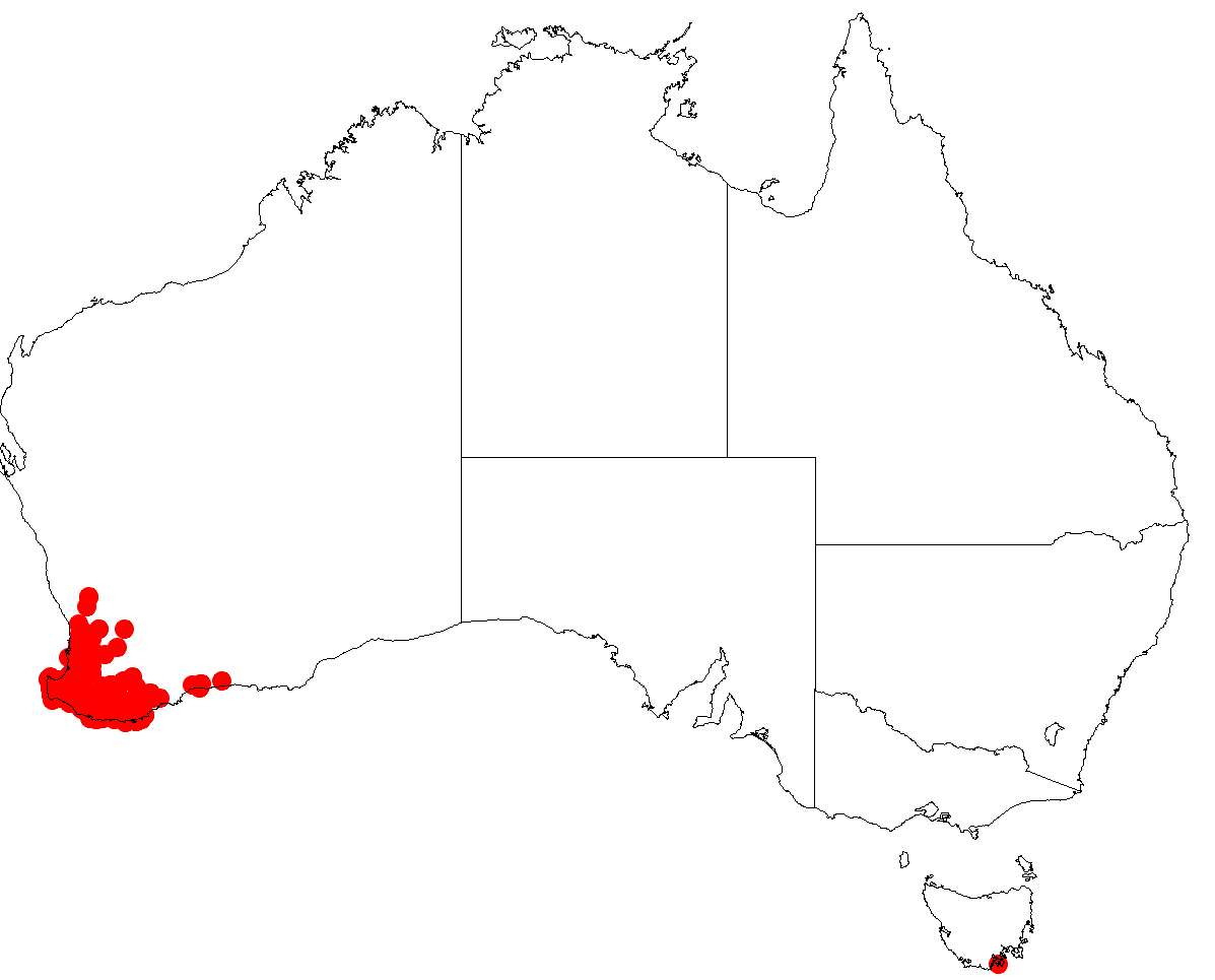 Billardiera variifolia occurrence data from Australasian Virtual Herbarium downloaded 5 July 2018